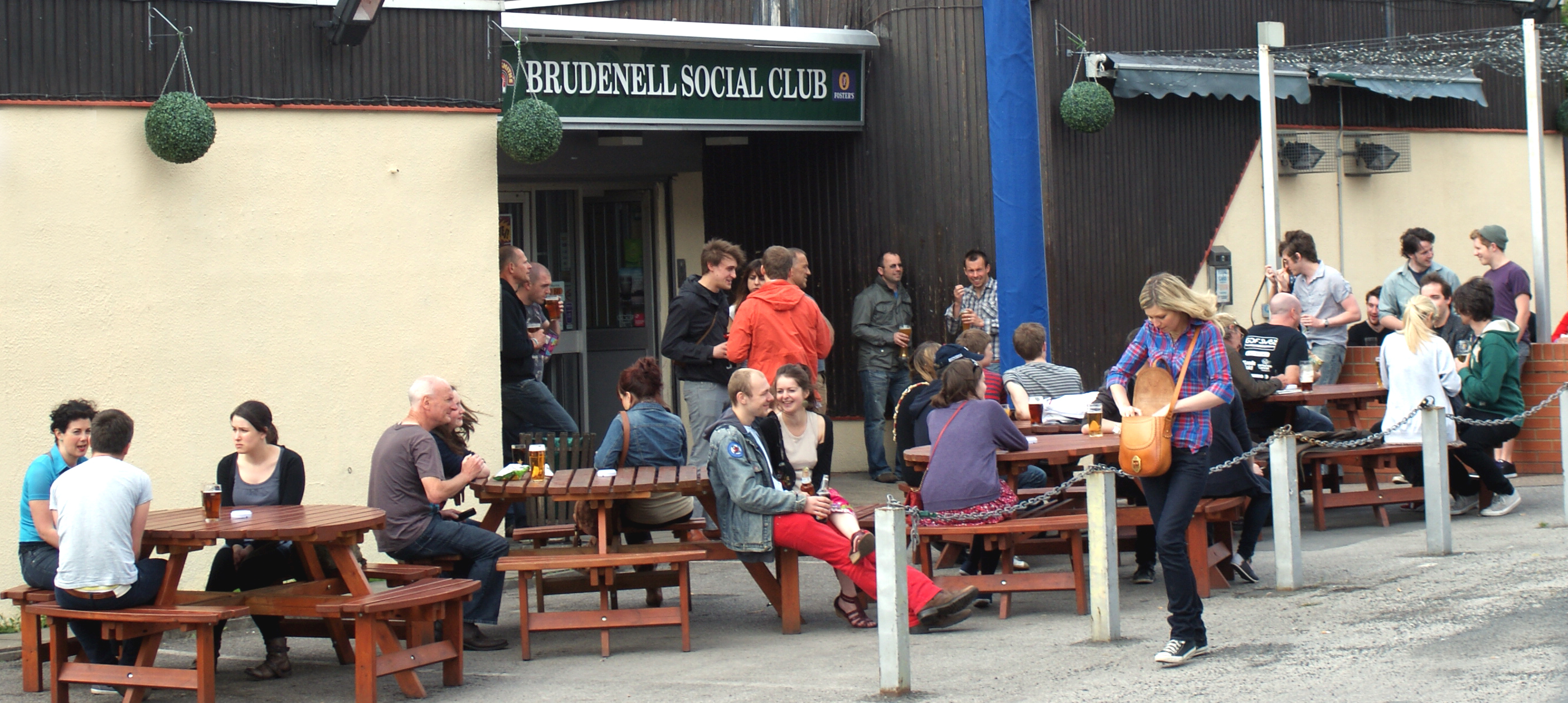 Sunday Lunchtime Outside The Brudenell Social Club